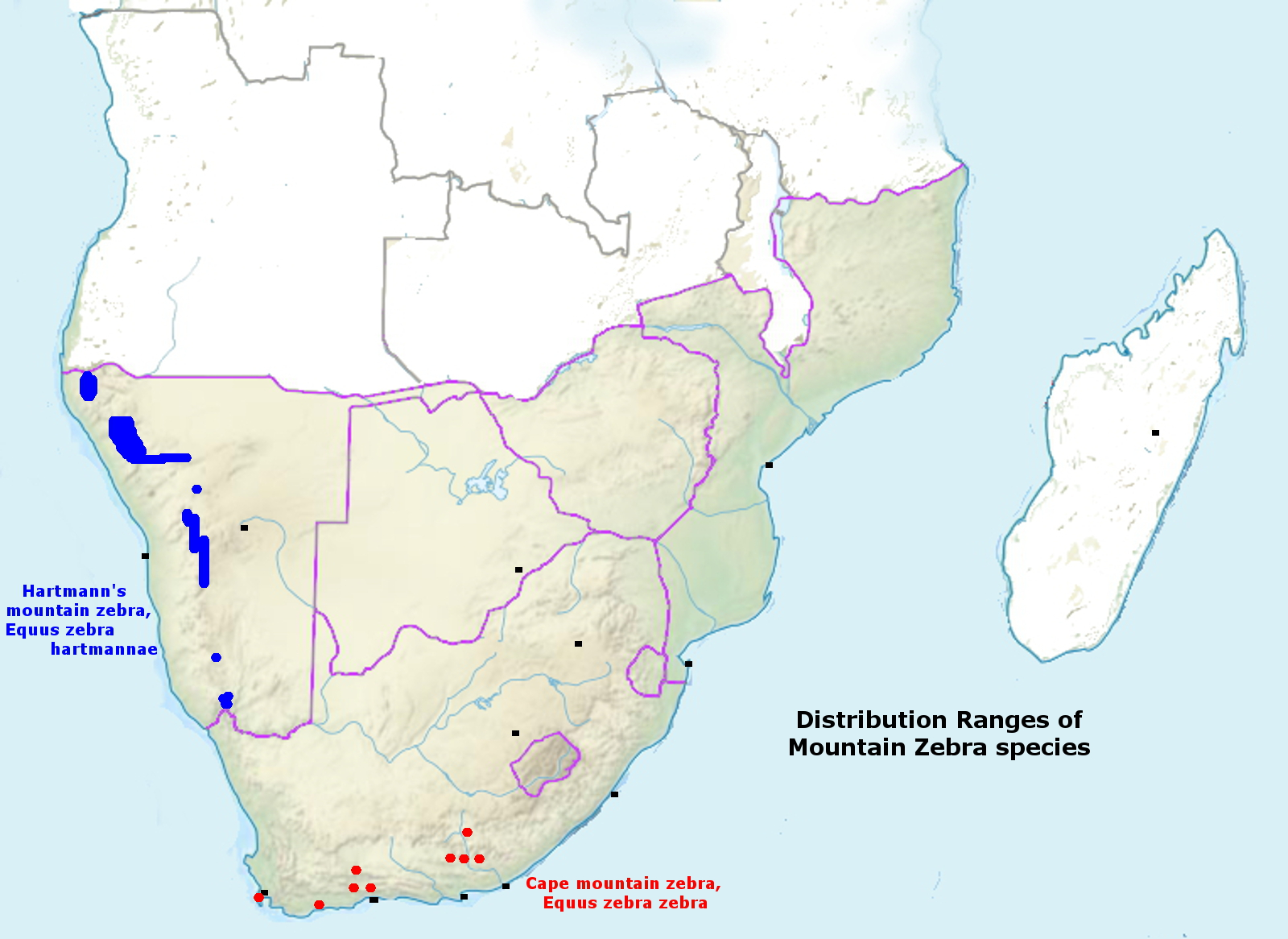 Roughly illustrate the ranges of occurrence of the two subspecies of Mountain Zebra in Southern Africa.